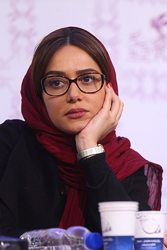 Navid Mohammad-Zadeh and Parinaz Izadyar at 34th Fajr Film Festiva(press conference of Abad va Yek Rooz